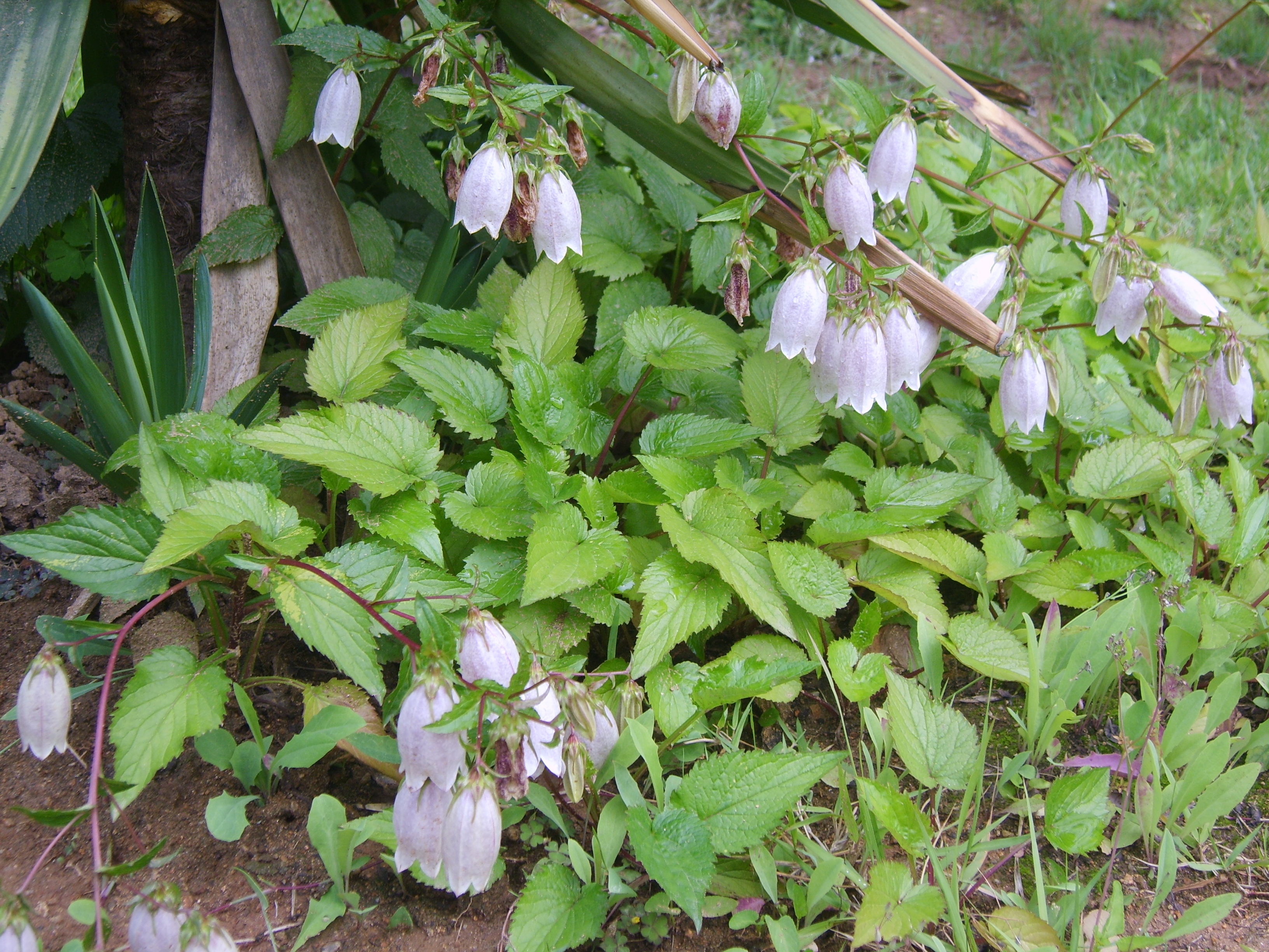 Campanula punctata in Bupyung, Korea